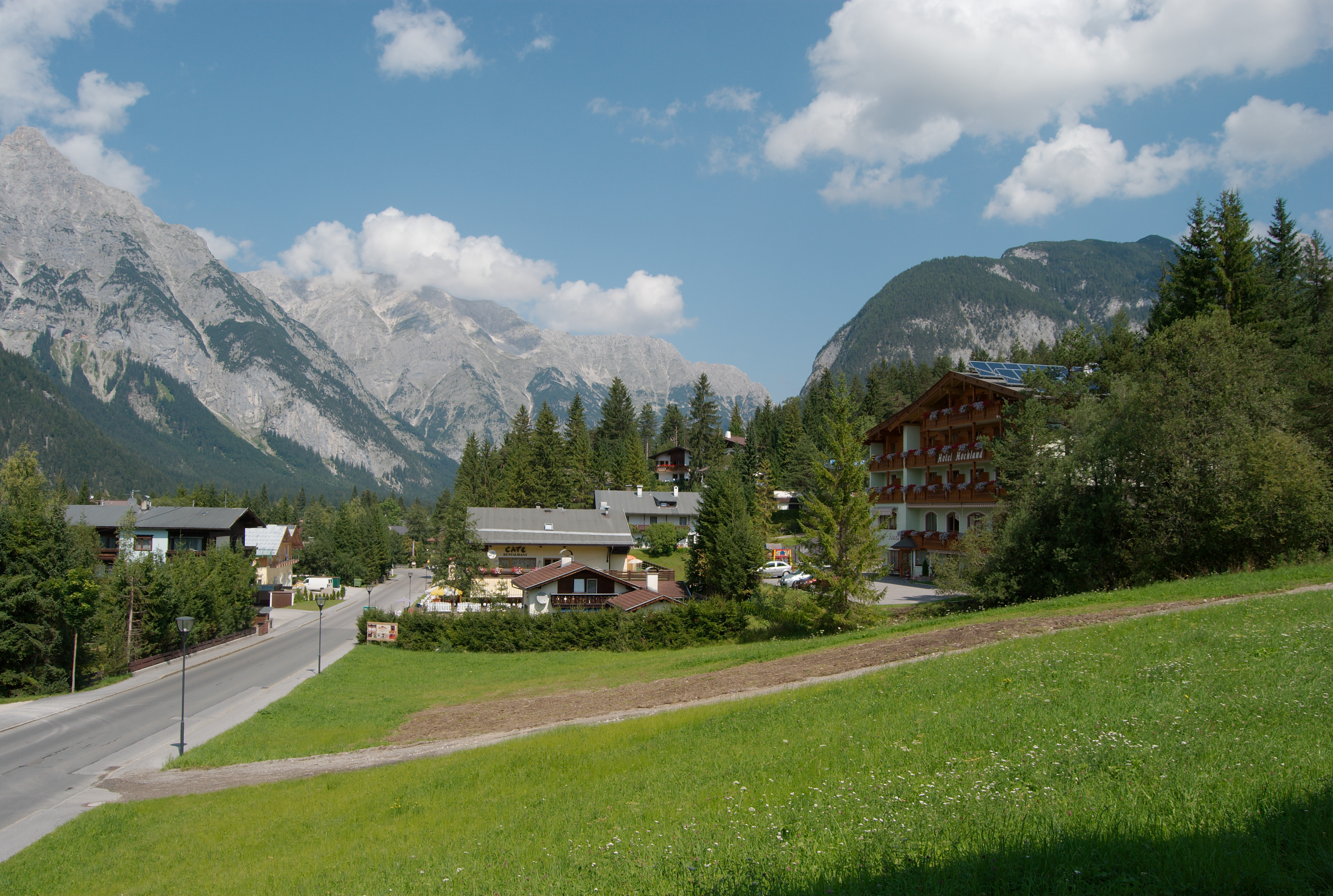 Leutasch - Weidach from south